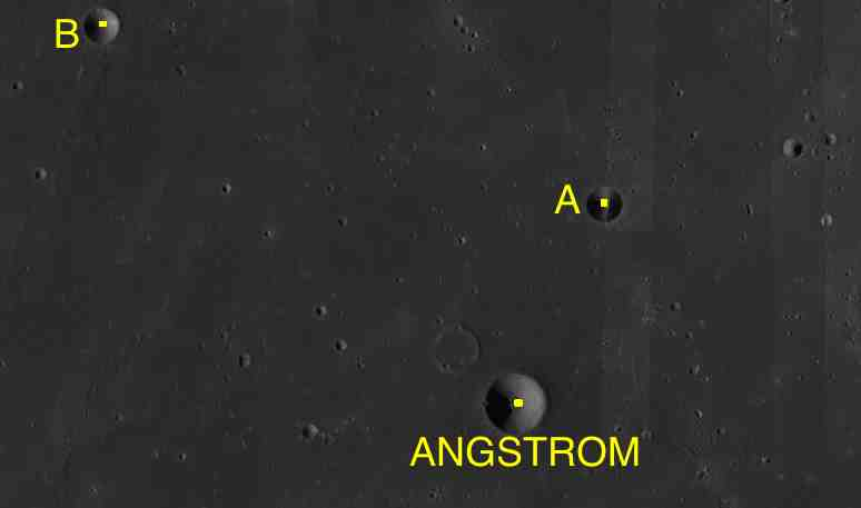 Part of the chart LAC-39 used for the presentation.